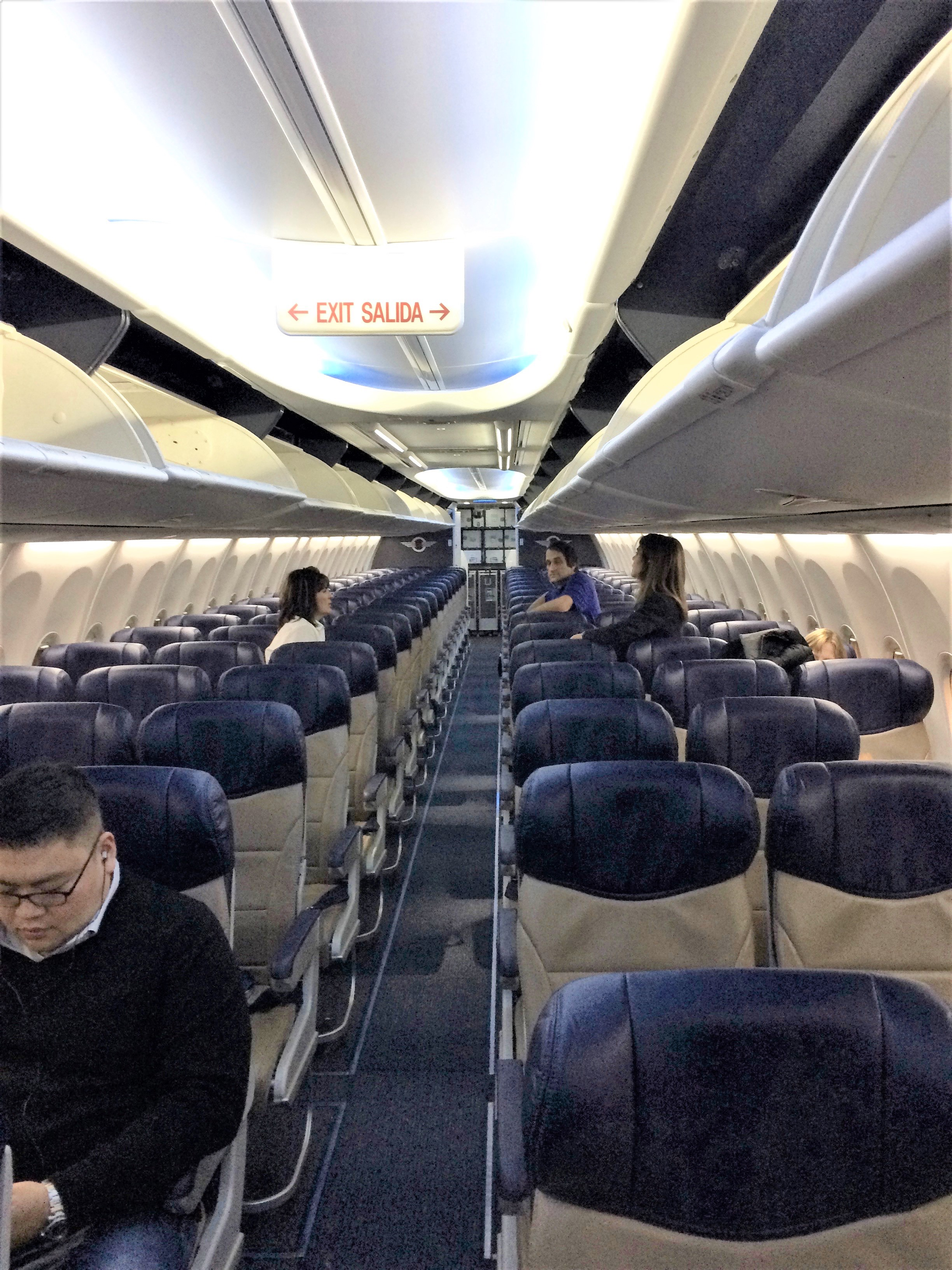 Southwest Airlines Evolve 737-800